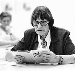 Annemarie Bostroem at "Strandhalle Ahrenshoop" on June 13, 2003